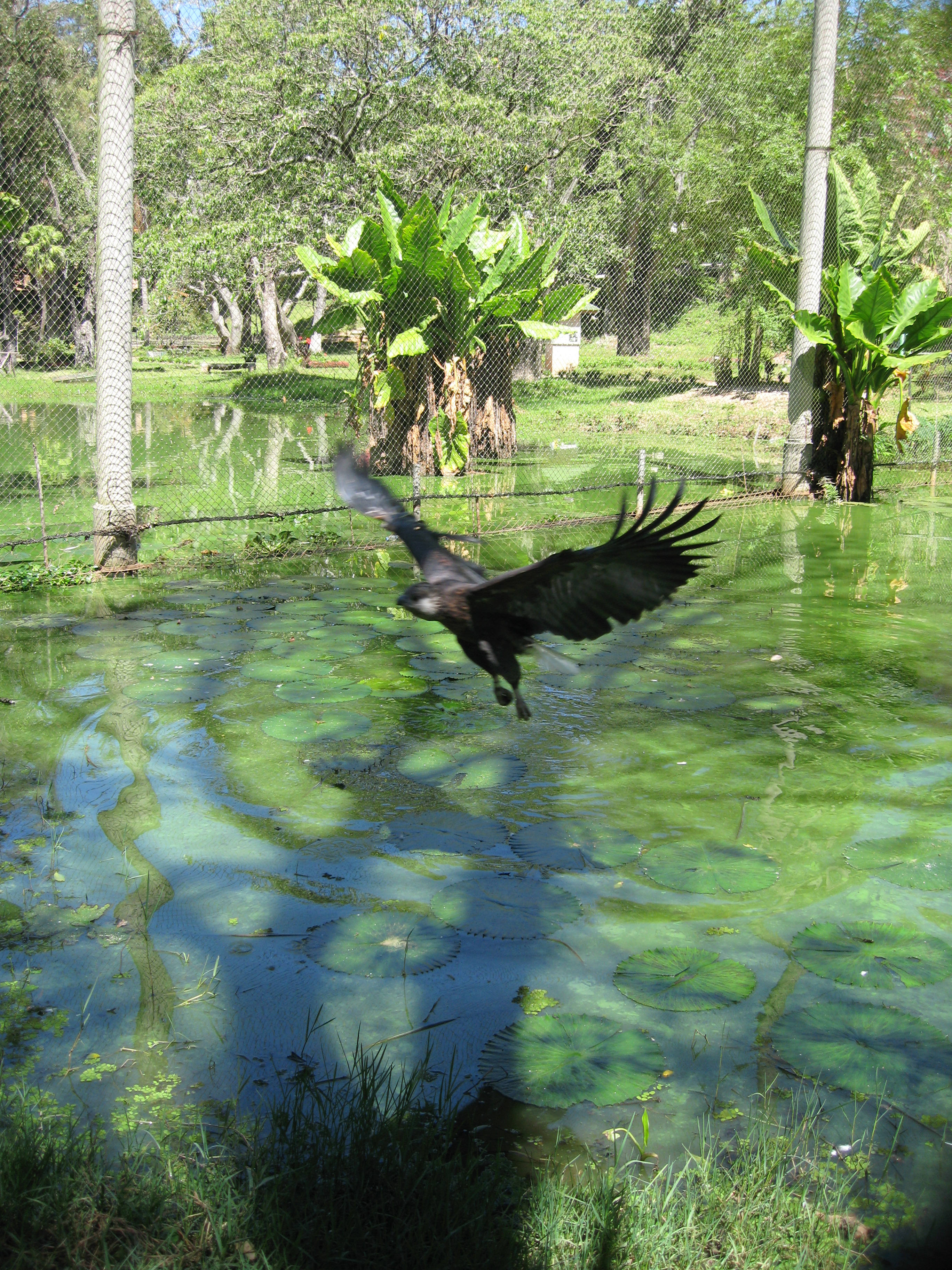 A Madagascar Fish Eagle flying to be fed in Antananarivo Zoo, Madagascar.